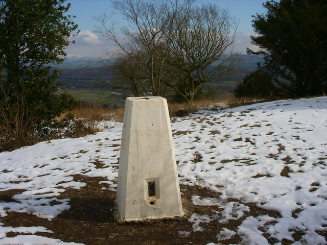 Arnside Knott trig. Looking NE from position